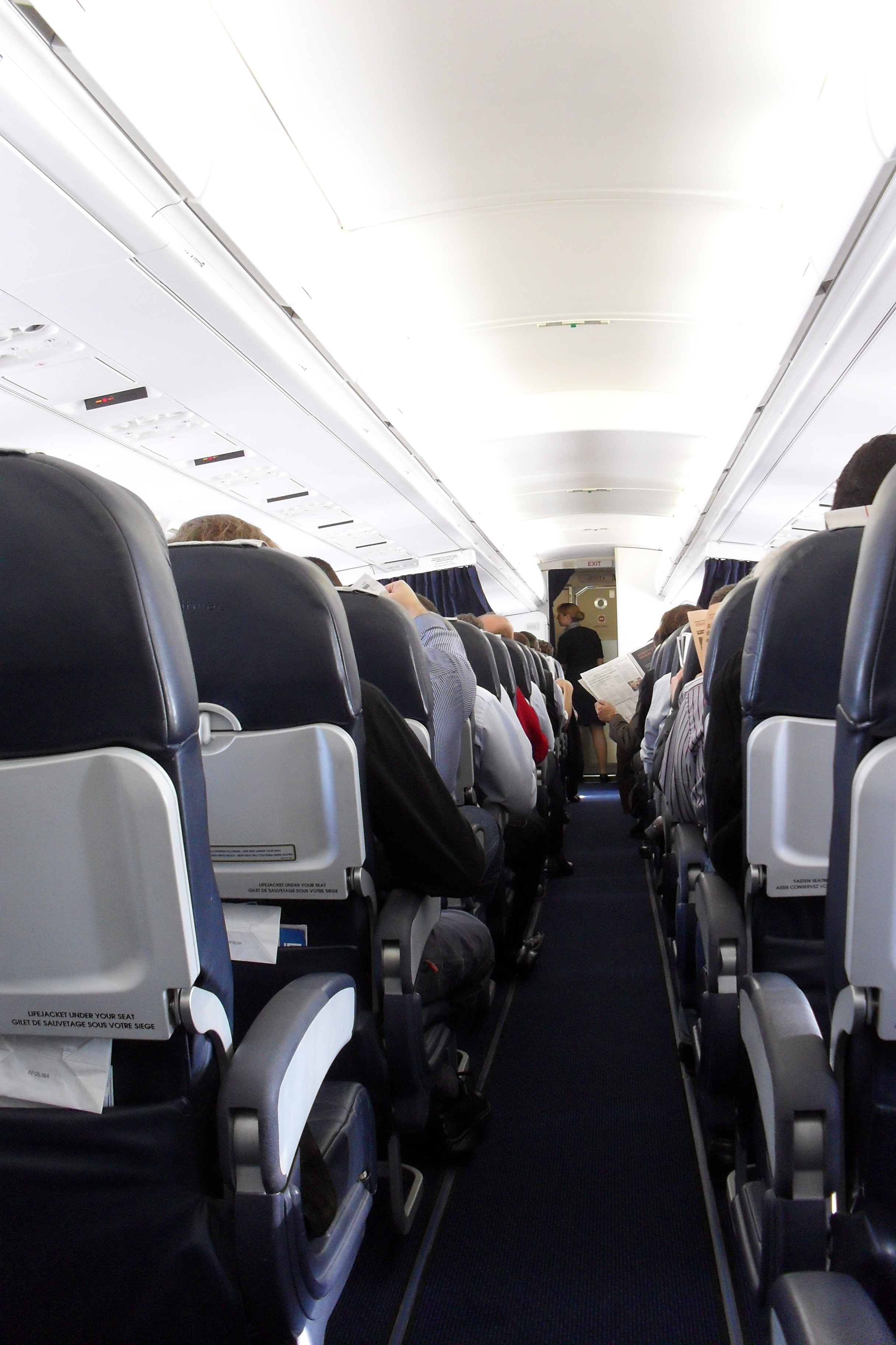 Cabin of a CityJet Avro RJ.